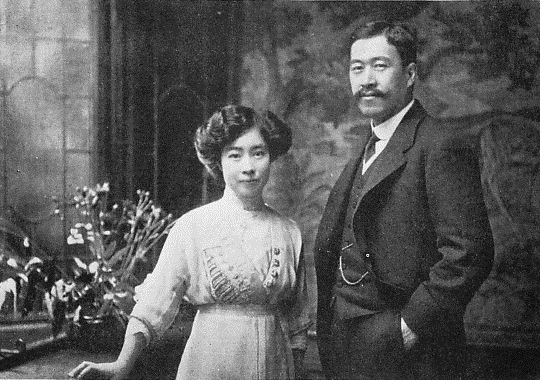 Kiko Okochi and his wife